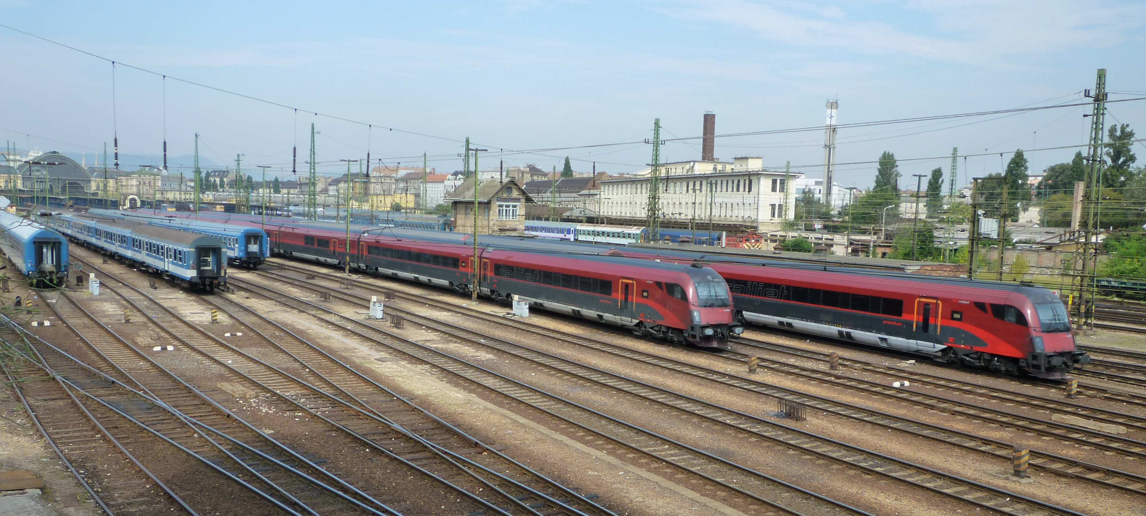 Railjet trains at Budapest Keleti pályaudvar (Budapest East railway station).